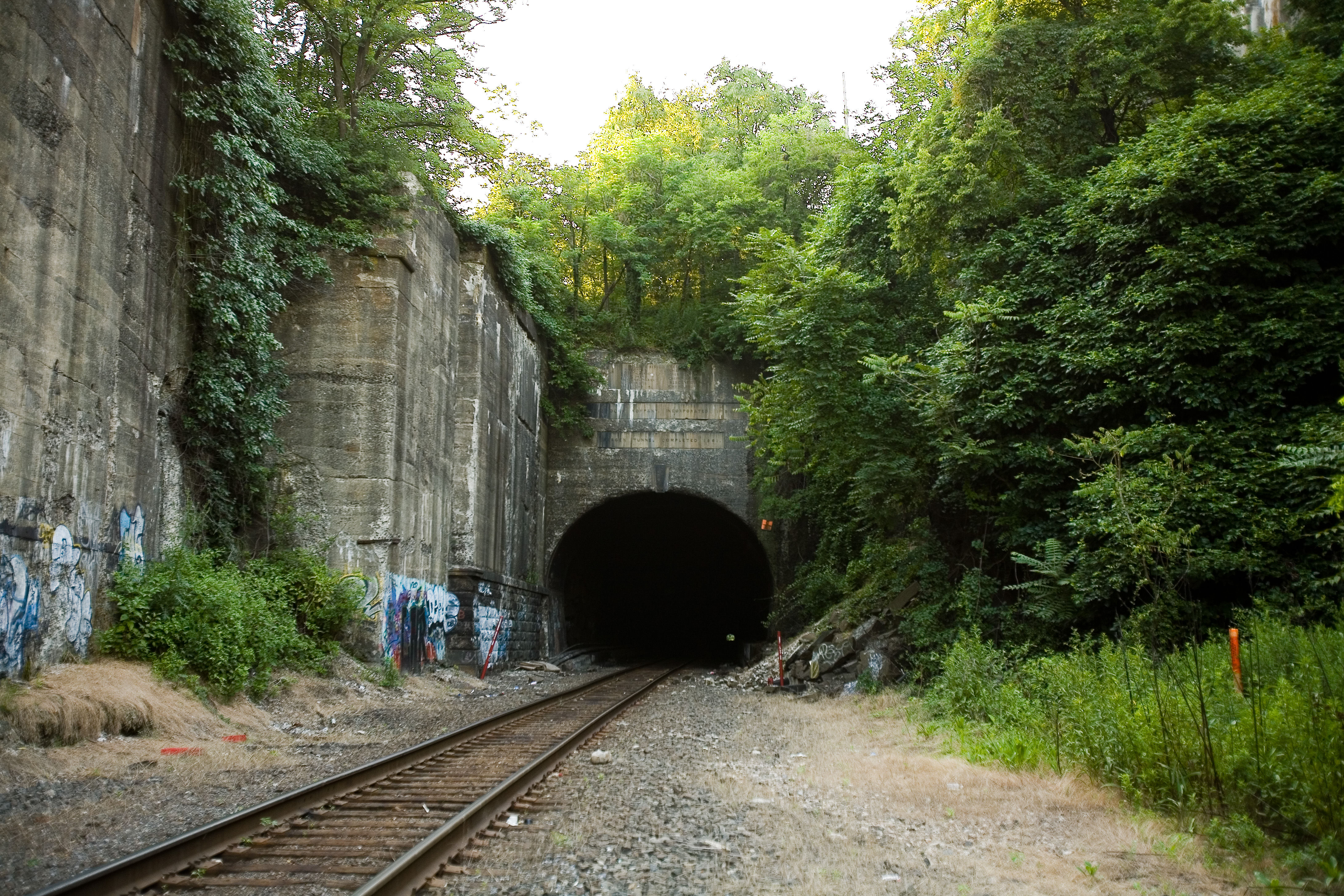 The Long Dock Tunnel (orginally called the Bergen Tunnel) opened in 1861. It was the second crossing through the lower Hudson Palisades, the first being the PRR's Bergen Hill Cut at what is now Journal Square Transportation Center. The Long Dock originally was used by both the Erie and the Delaware, Lackawanna & Western. In 1876, the DL&W built the first tube of the Bergen Hill Tunnels farther north under Jersey City Heights. In 1910, the Erie opened the 4-track Erie Cut under Bergen Arches just to the south of the Long Dock. The Long Dock remained in use for freight. In conjunction with the Holland Tunnel and the Pulaski Skyway, the Route 1 Extension was built in yet another cut just north of and parallel to the Long Dock. The roadway, now known as State Highway 139, passes over the tunnel just before they both emerge at the western slope of the Palisades at Kennedy Boulevard in Jersey City. As of 2012 the Long Dock Tunnel was used by CSX Transportation's National Docks Secondary line.